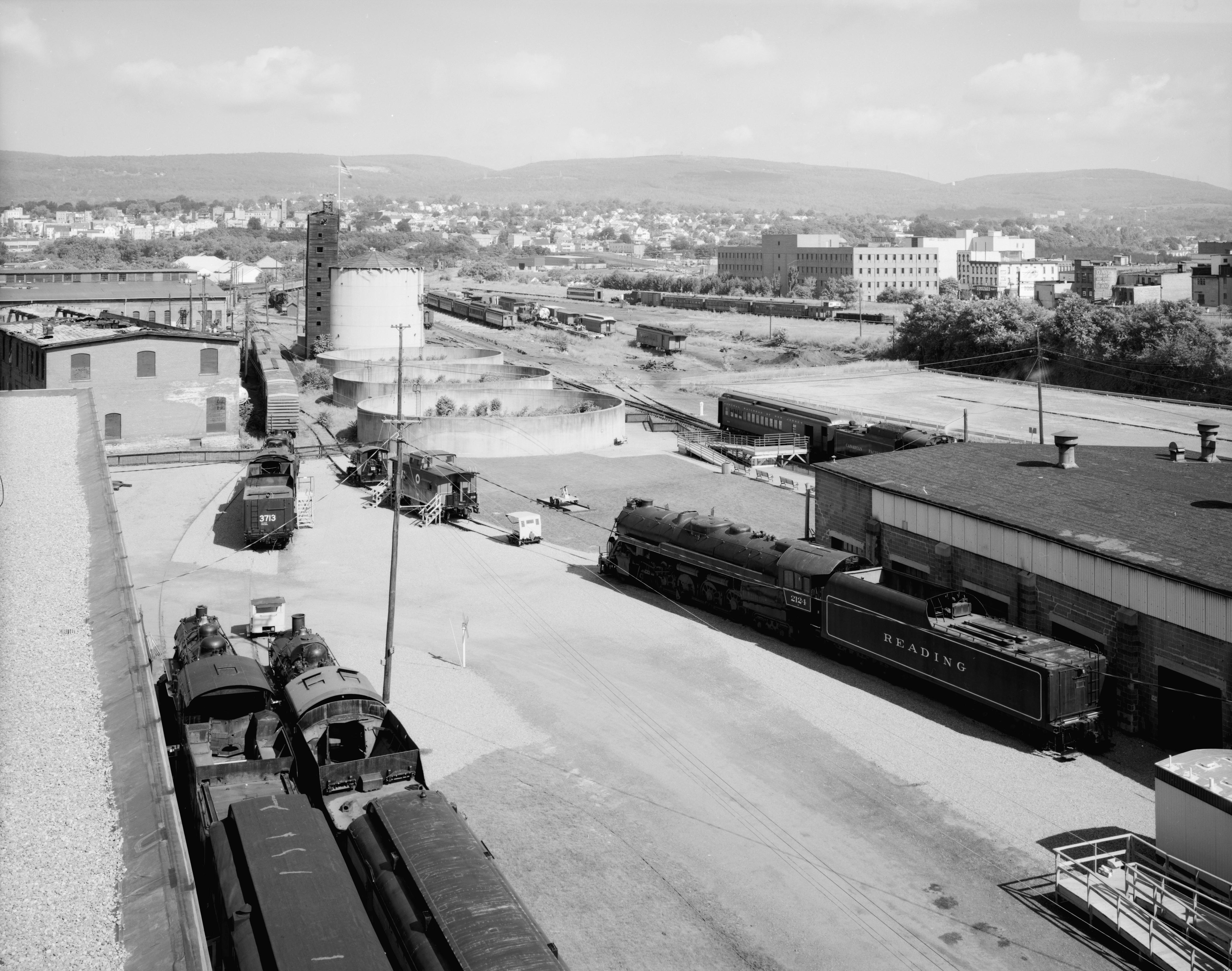 Overview of the former Delaware, Lackawanna and Western railyard in Scranton, Pennsylvania, United States.